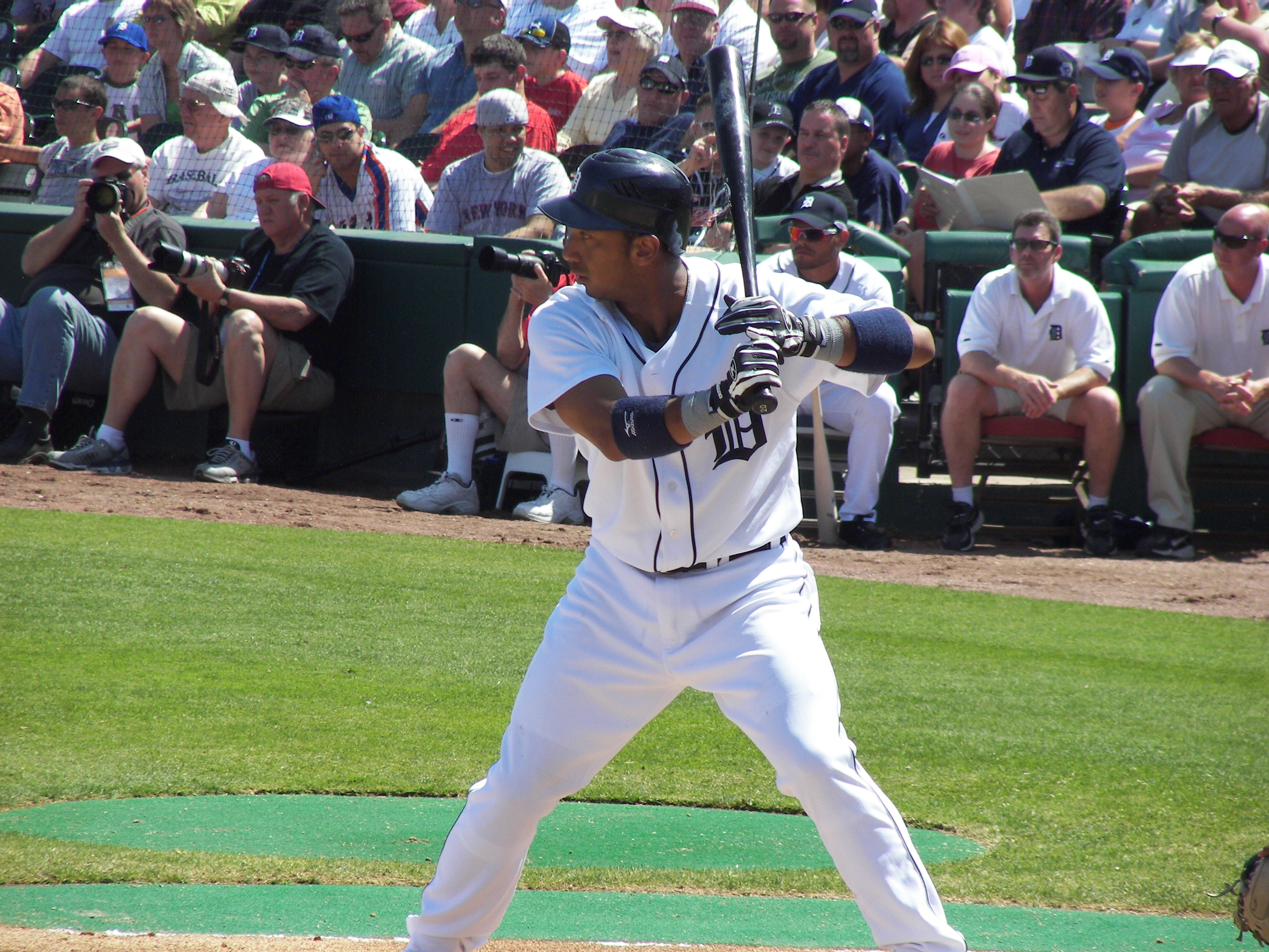 Detroit Tigers infielder Carlos Guillén during a Tigers/New York Mets spring training game at Joker Marchant Stadium in Lakeland, Florida.